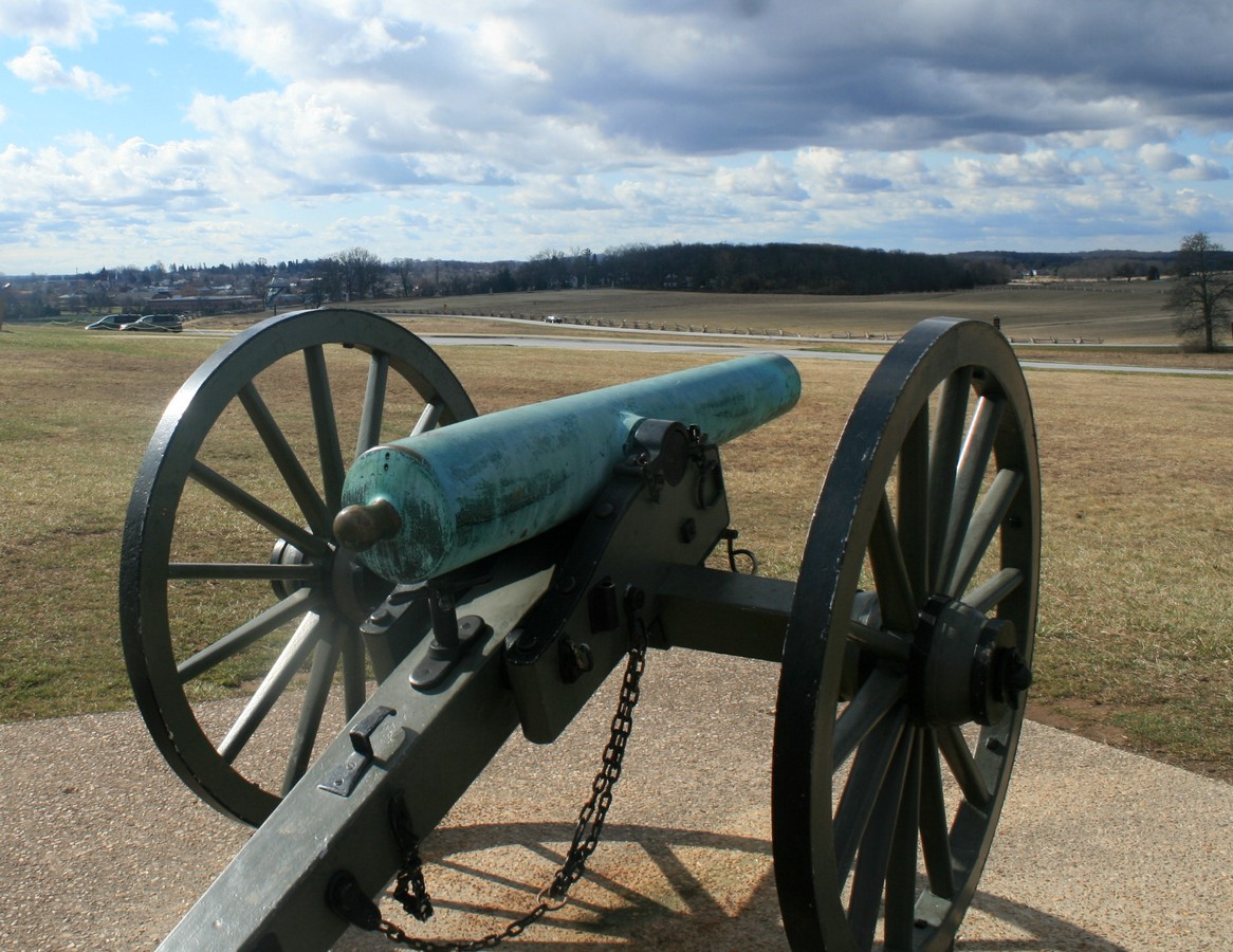 Gettysburg, Oak-Hill, 12-pounder Napoleon (CSA)